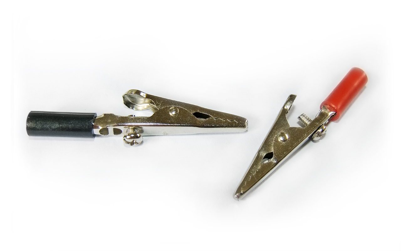 A pair of Alligator clips